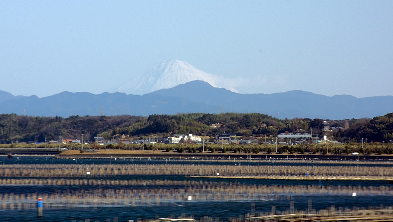 View of Mount Fuji across Lake Hamana. Photographed from a moving train on the Tōkaidō Shinkansen.